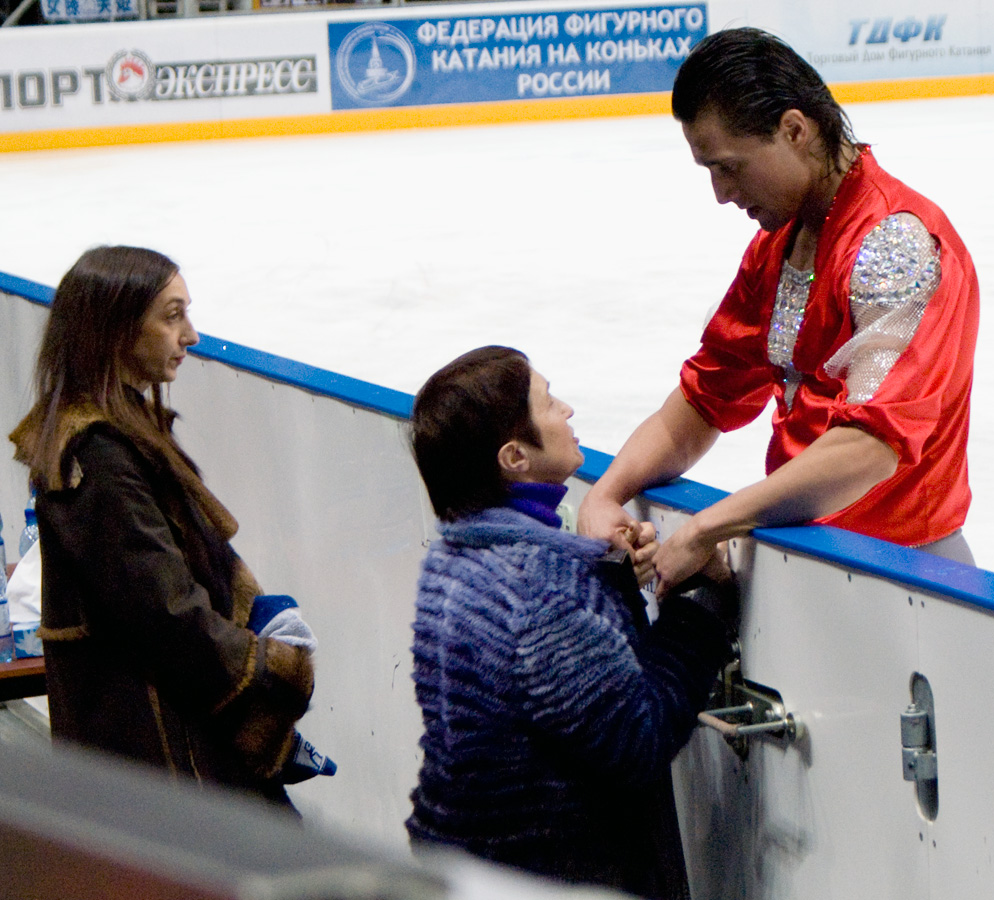 2010 Cup of Russia, short program. Alexander Smirnov with Tamara Moskvina and (?) Tatiana Druchinina.